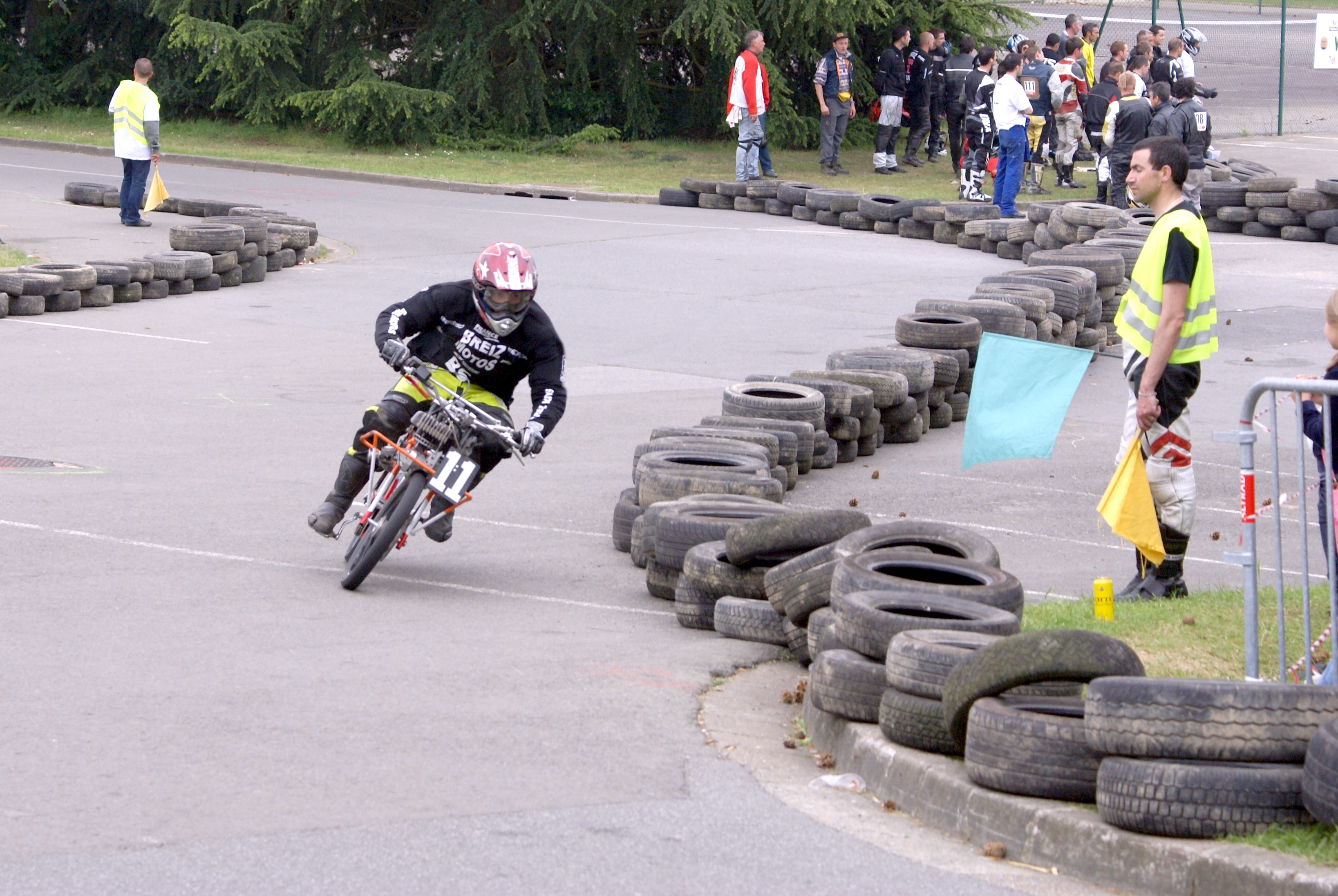 Solex race during Rock'n Solex festival in Rennes.